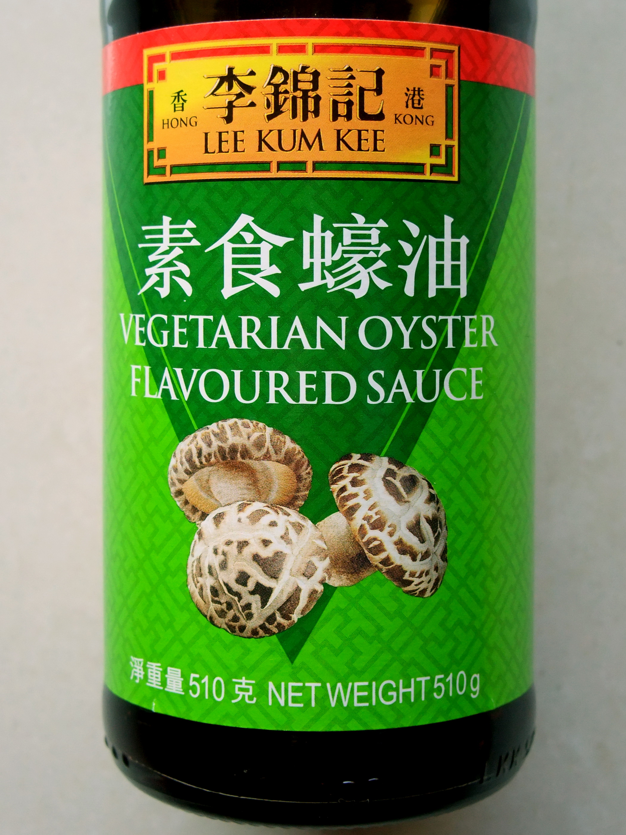 Hong Kong Lee Kum Kee vegetarian oyster flavoured sauce